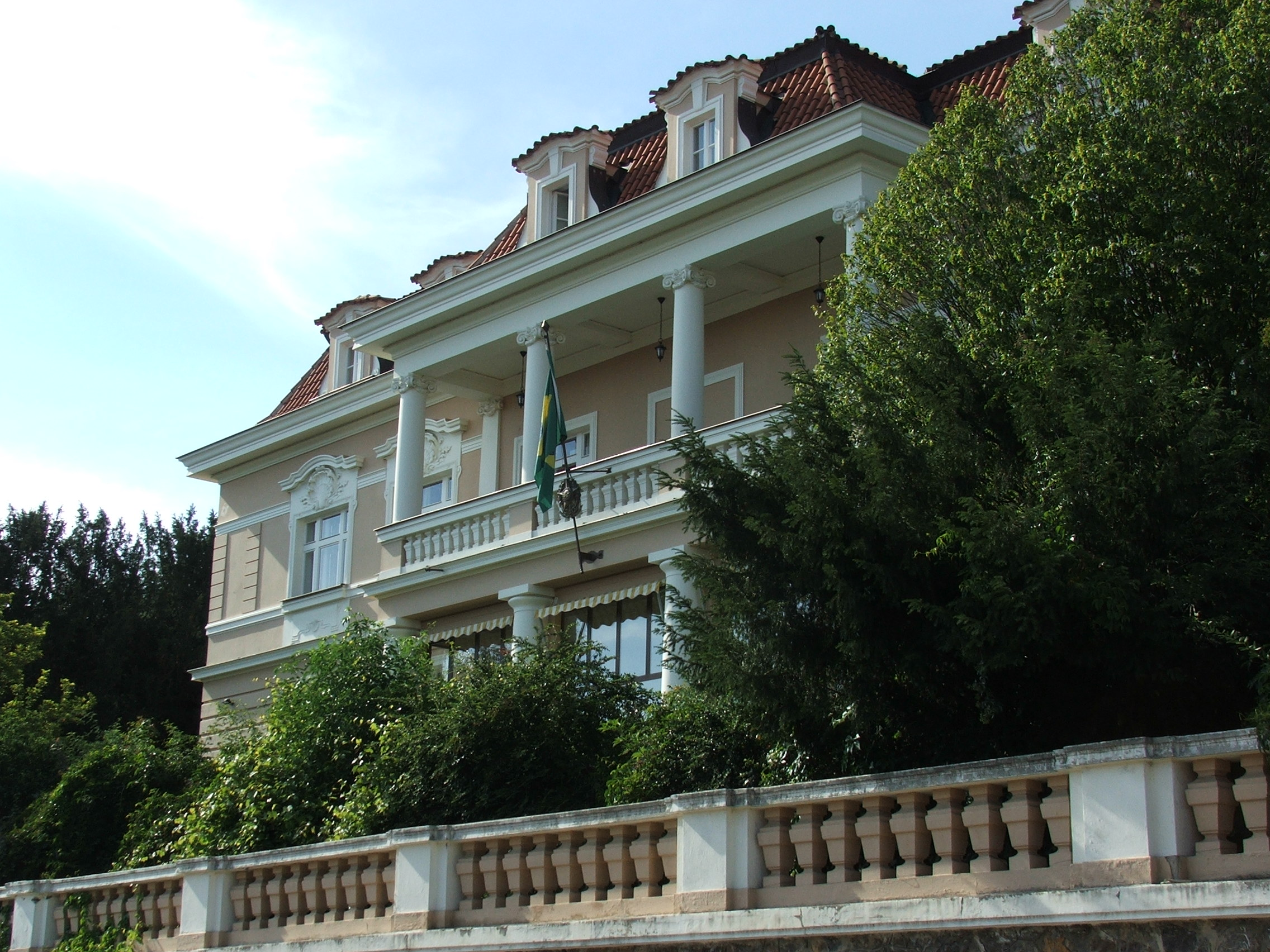 Residence of the Embassy of Brazil in Prague. Troja, Czechia, Nad Kazankou street. The Chancery is located in Panská street.